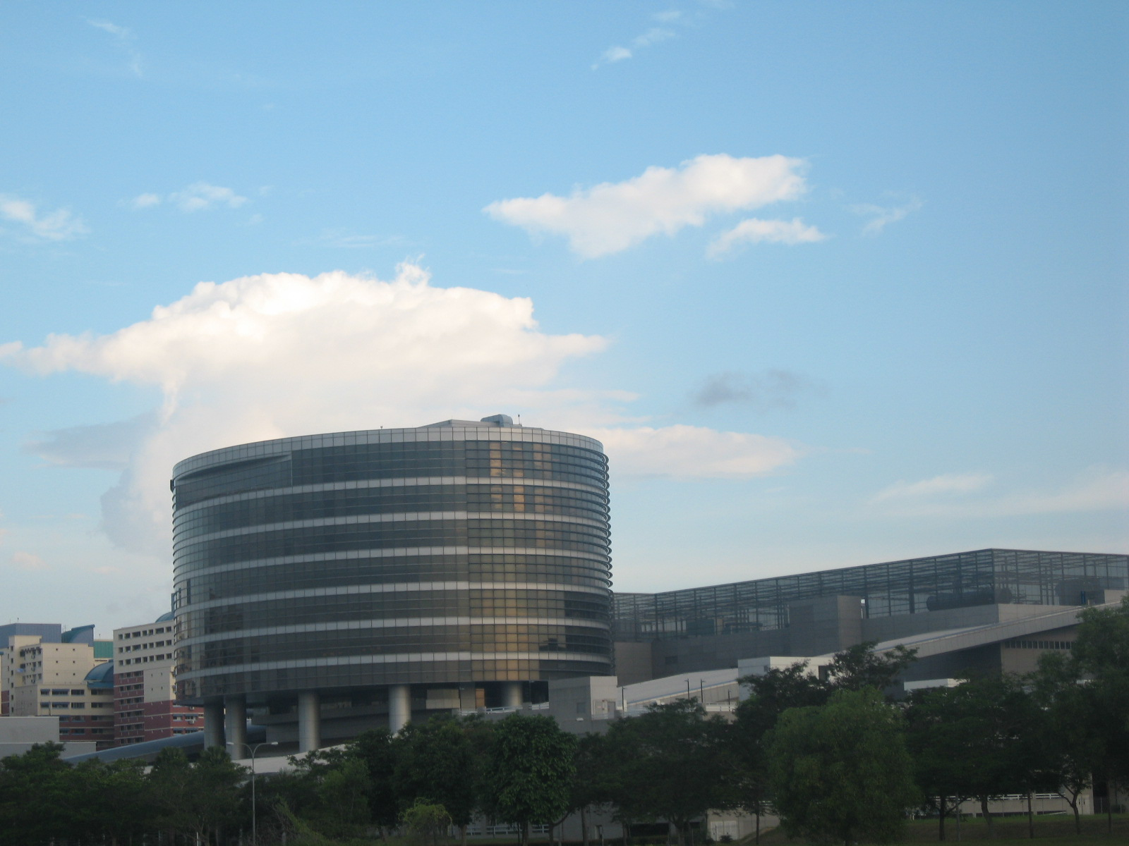 UMC Singapore HQ.